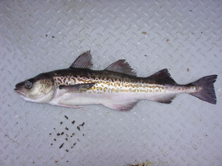 The pollock's (Theragra chalcogramma) speckled coloring on top helps keep pollock safe from predators when close to the sea floor. It is similar to a sandy ocean floor, allowing the pollock to blend in.